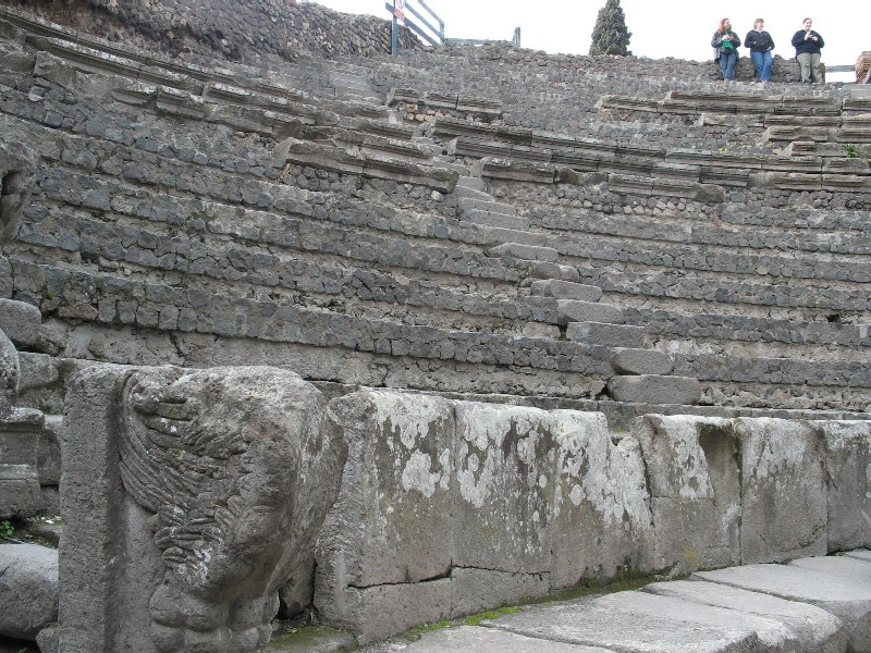 Amphitheater of Pompei.